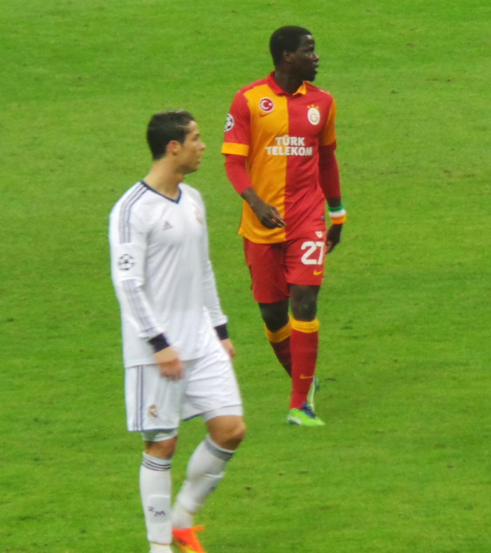 Eboué with Ronaldo